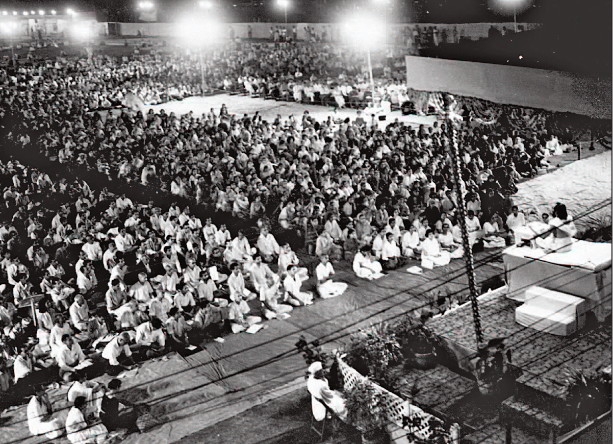 Swami Chinmayananda performing a Jnana Yagna in South India